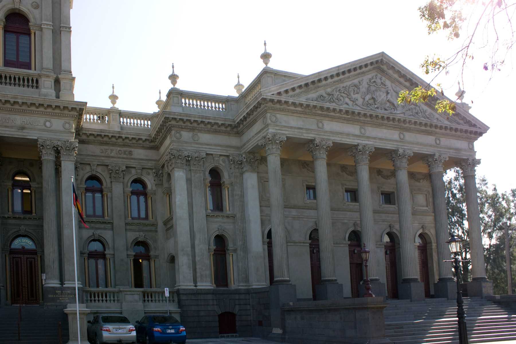 Fitzroy Town Hall